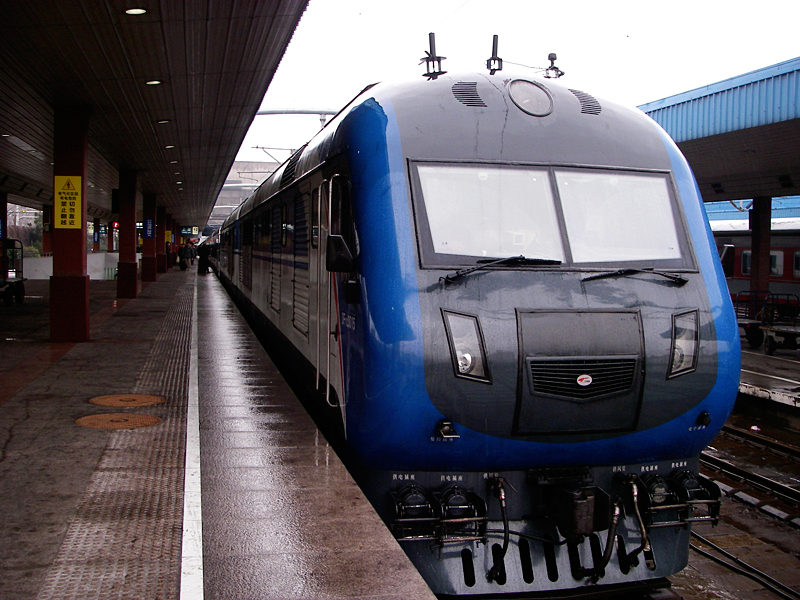 @ Shanghai Station, Shanghai